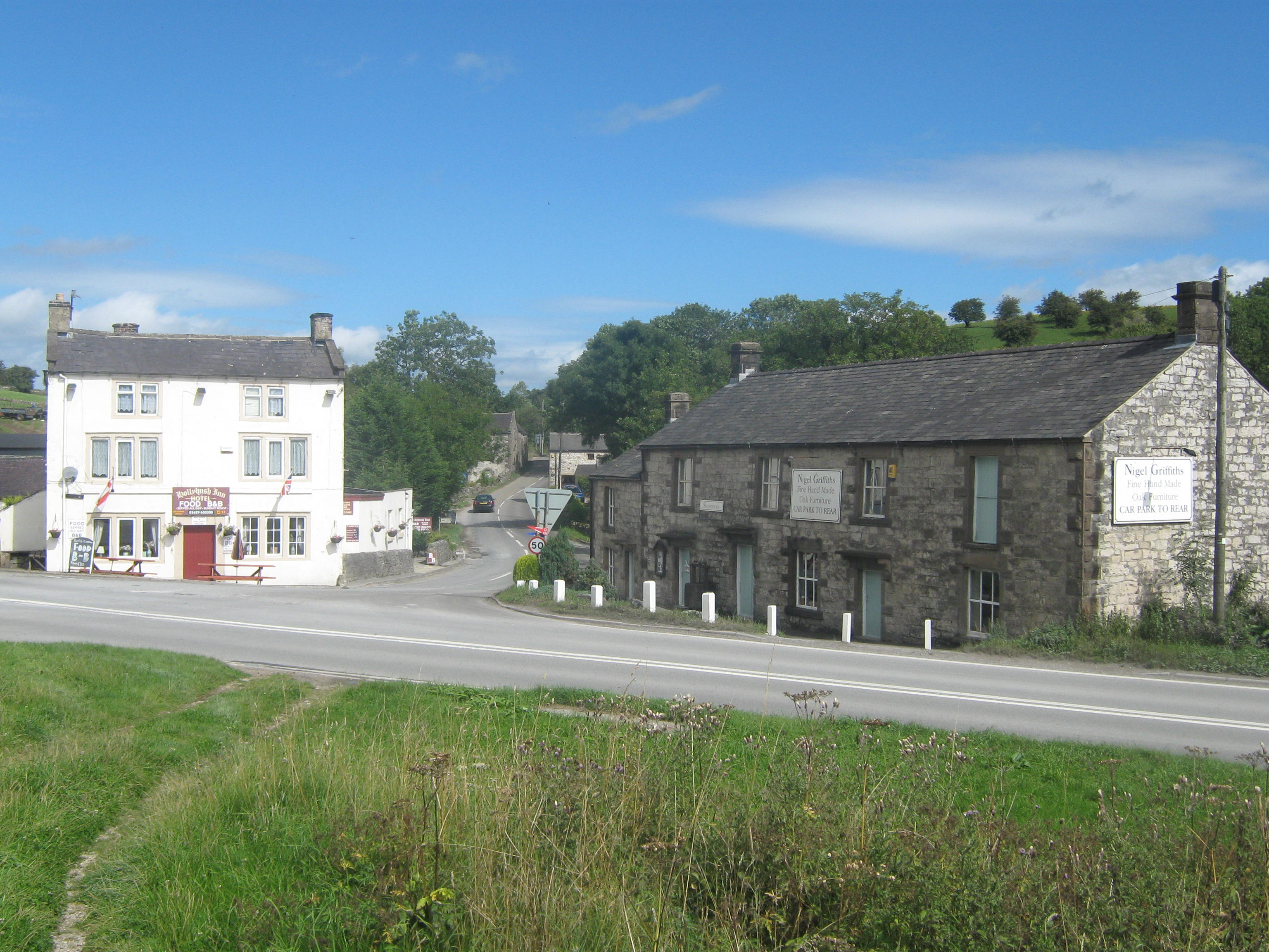 The village of Grangemill in Derbyshire. Photo Taken: 21/08/10